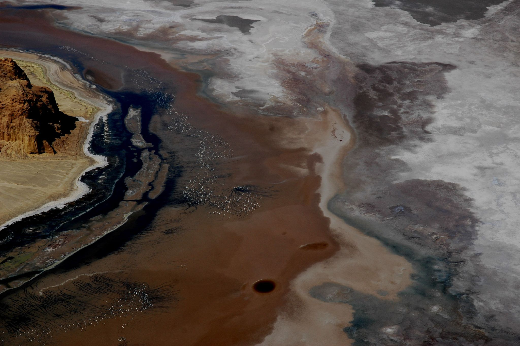 Large flock of Lesser Flamingos flying over the edge of shallow water lake Logipi, Kenya